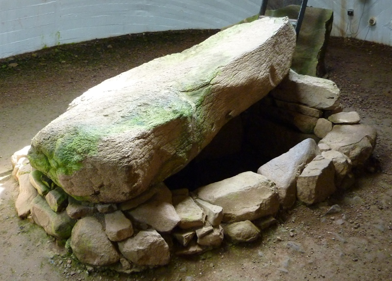 Cairnpapple Hill, West Lothian, Scotland. Cist.